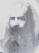 Portrait of bulgarian priest Ivan Buhlev, cropped from the backside photo of his grave